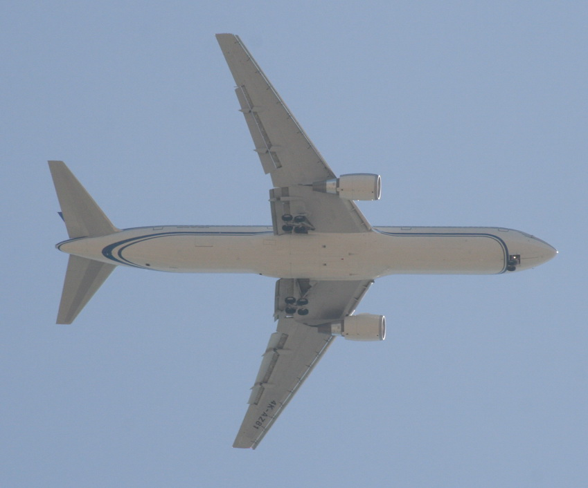 Azerbaijan Airlines Boeing 767-300ER 4K-AZ81 approaching the Heydar Aliyev International airport